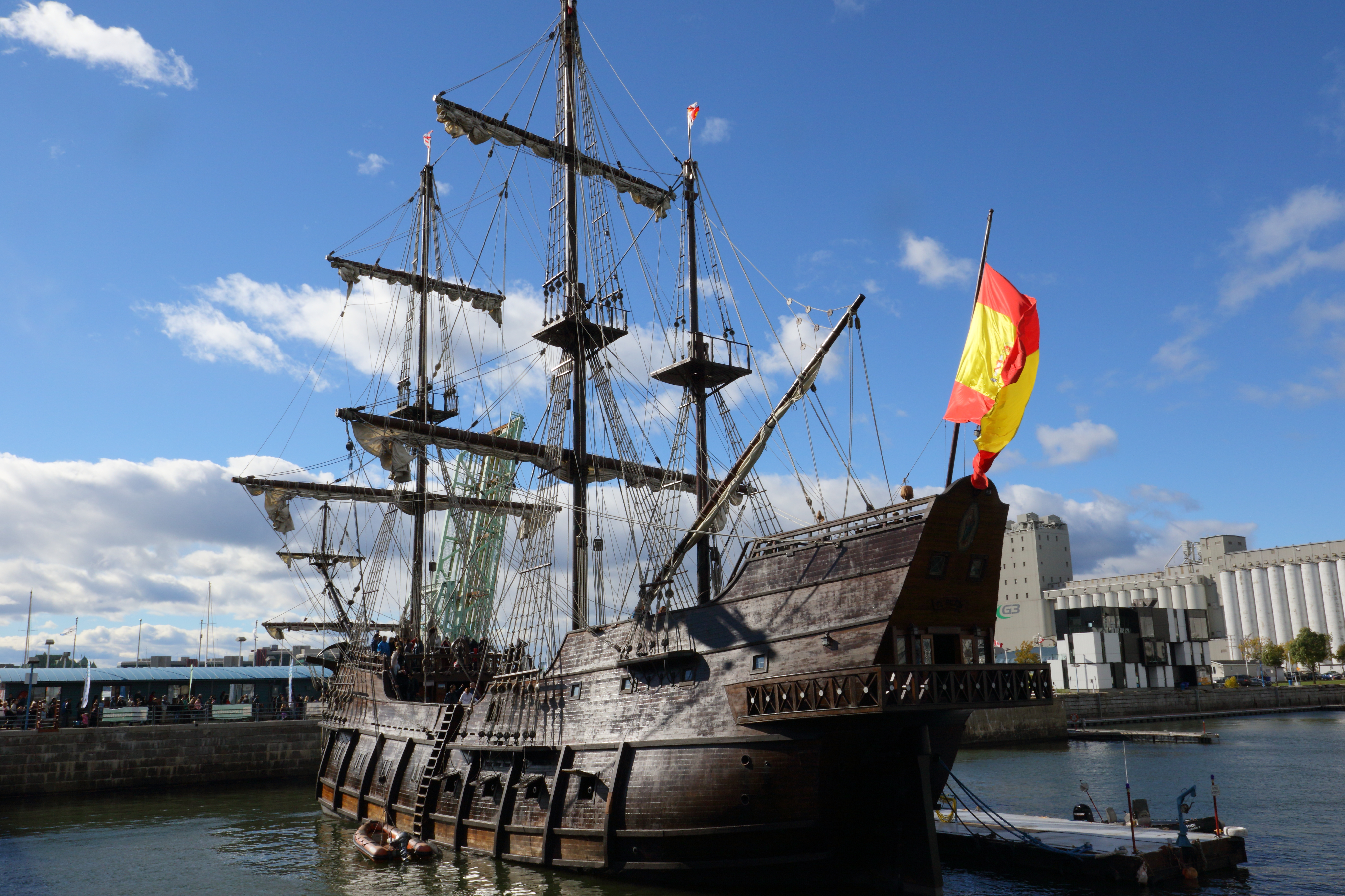 Galeón Andalucía (El Galeón) in Quebec City.